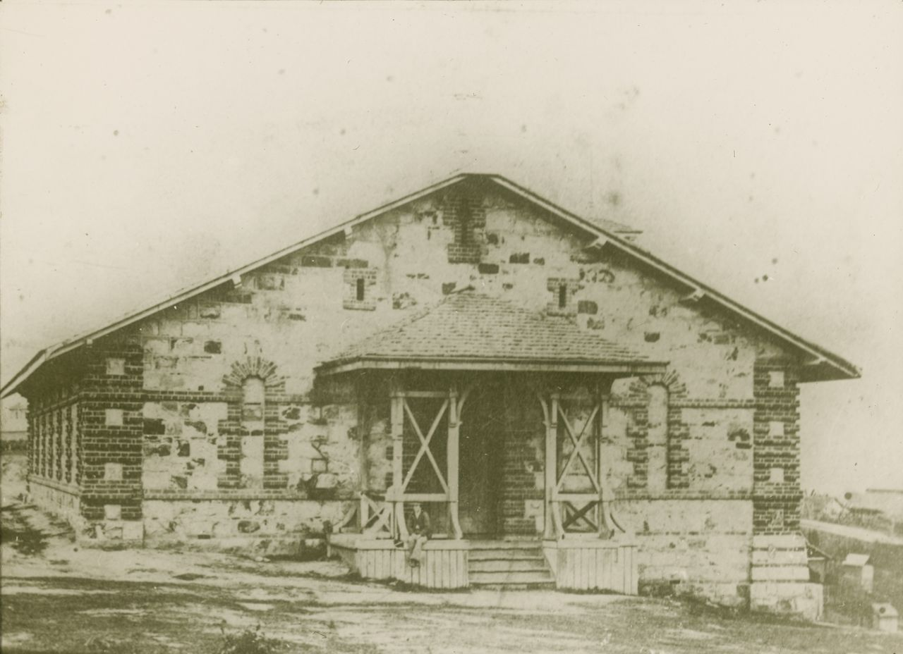 First All Saints' Church, 1862, by Henry Alcock